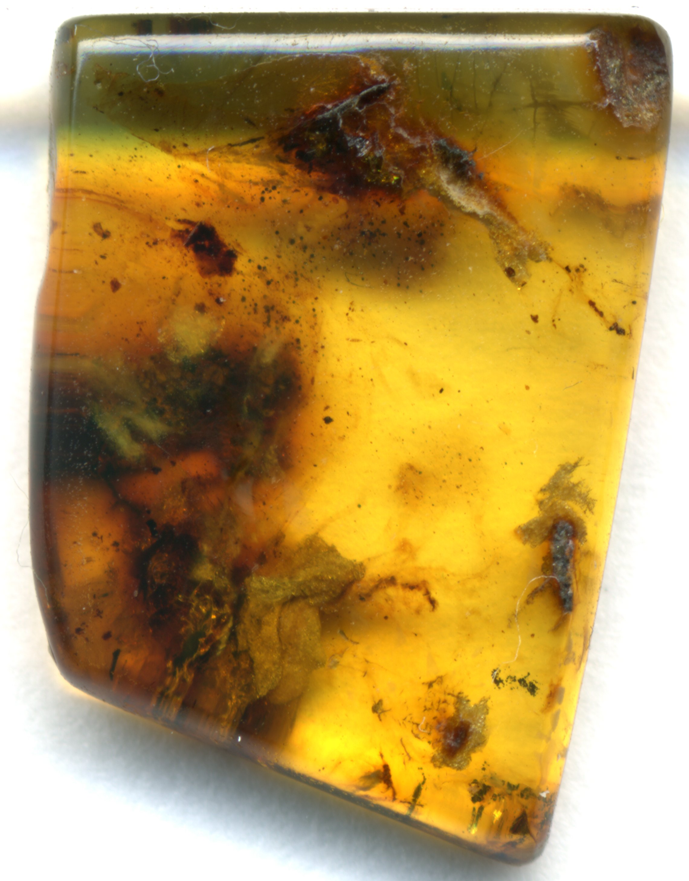 High resolution image of Haley's amber taken with flatbed scanner. This image is also available stereoscopically (in 3D): Halamber.jpg Such pieces are actually much more typical of amber as found, only a small percentage of specimens contain major inclusions or are of jewelry quality. Though they have little scientific or monetary value, they can be fascinating to view under a stereo microscope or in a stereoscopic (3D) image. Several such pieces and a small stereo microscope would make a great present for a scientifically minded youngster or even an adult hobbyist.